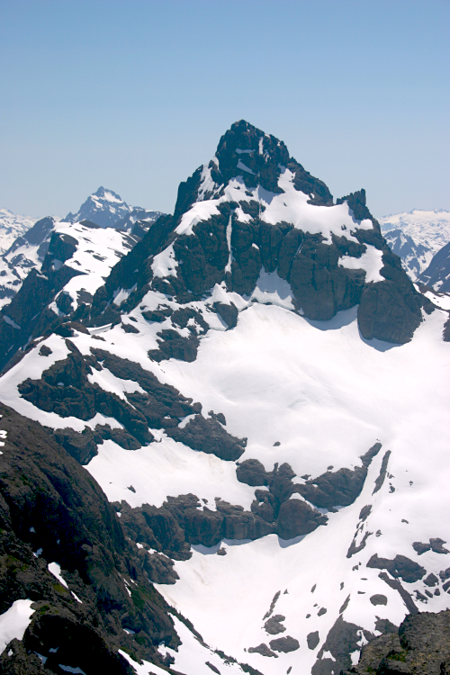 Elkhorn Mountain, north aspect. Photo taken from the summit of King's Peak.